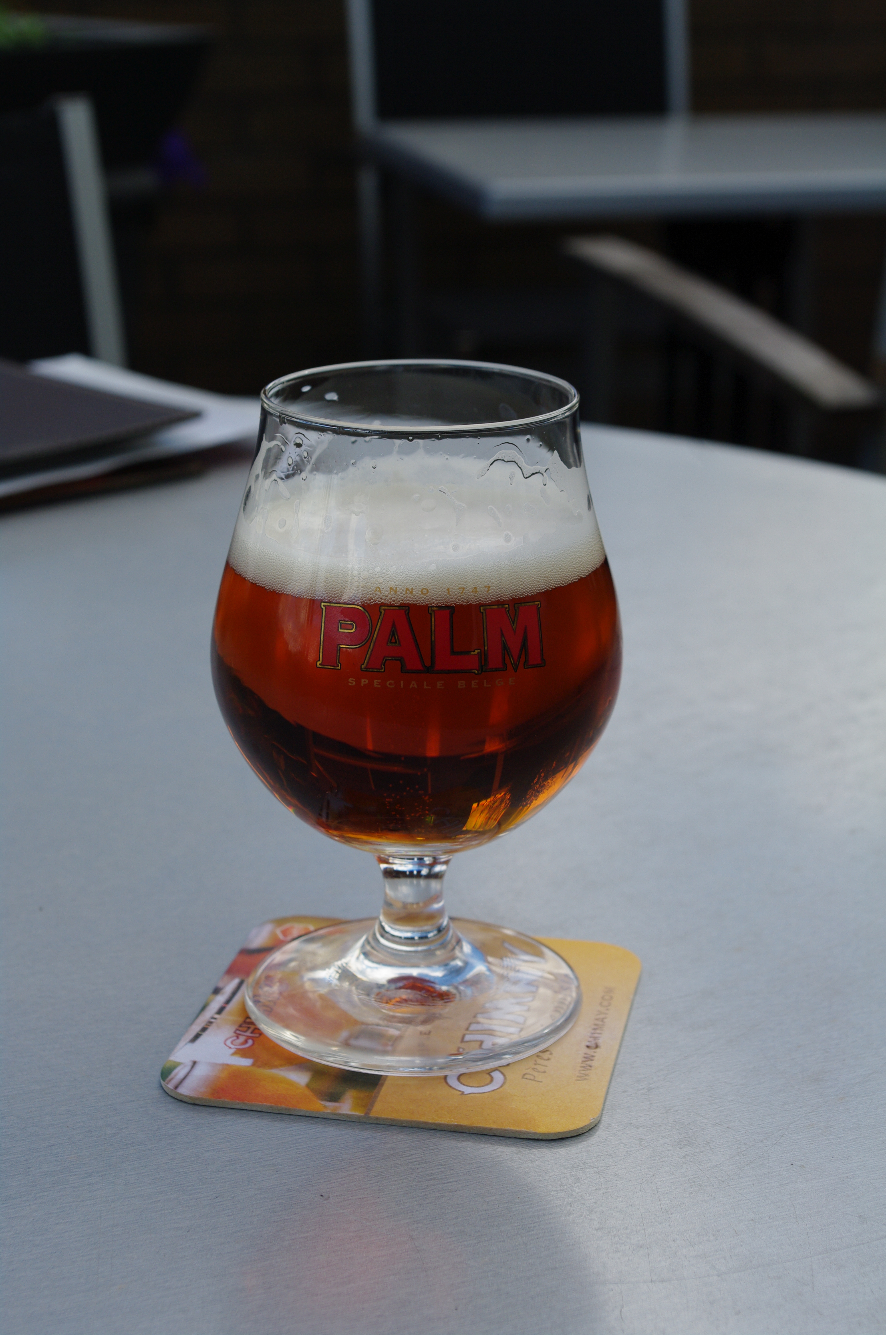 Palm glass